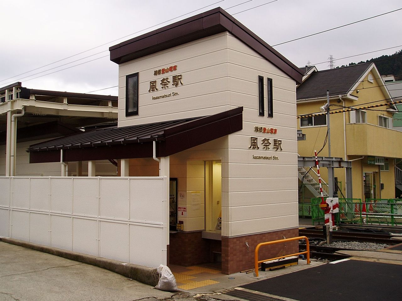 Hakone Tozan Railway Kazamatsuri Sta.